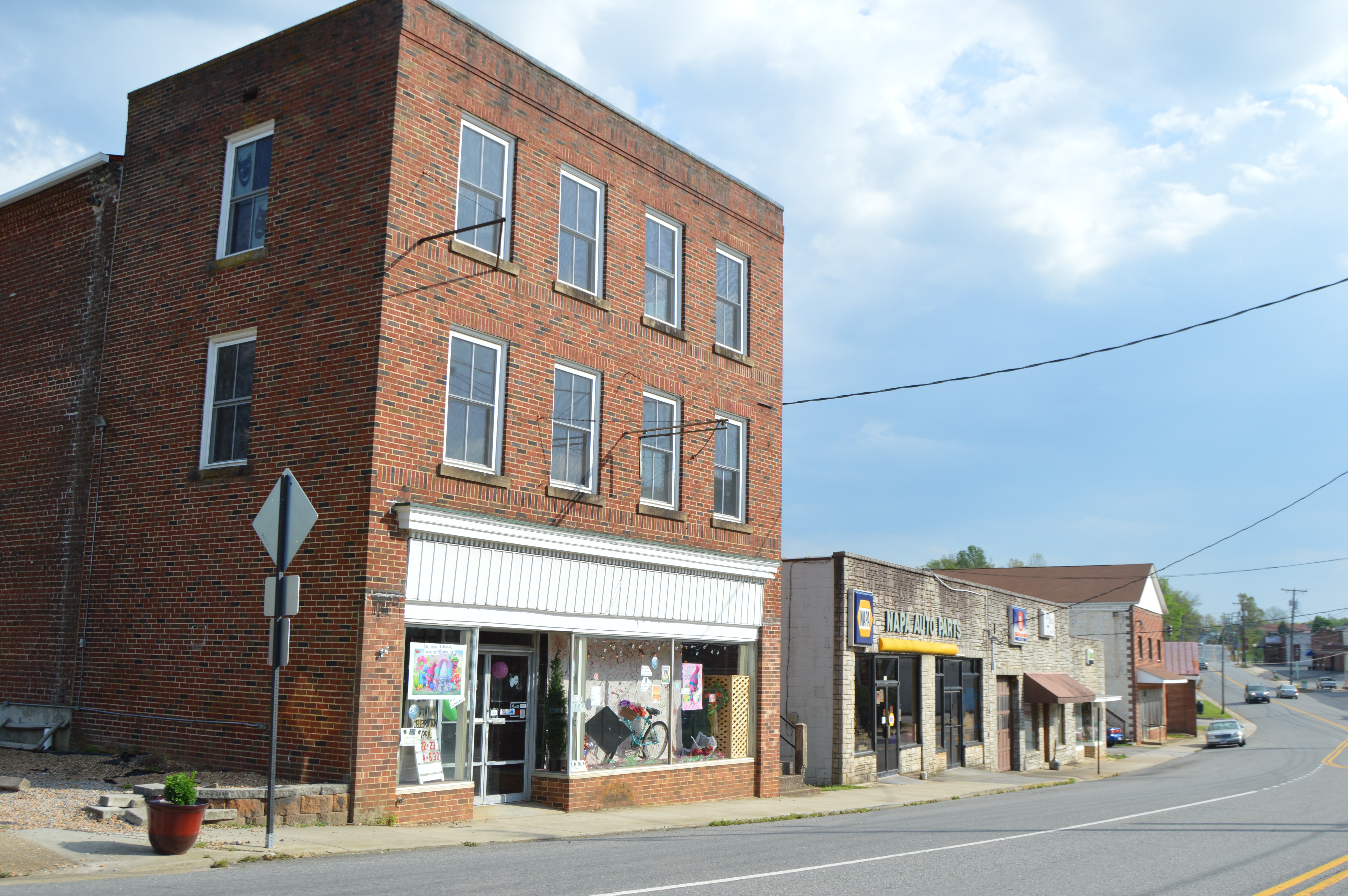 Buildings on the western side of Main Street, south of the Henry Street intersection, in Gretna, Virginia, United States. This block is part of the Gretna Commercial Historic District, a historic district that is listed on the National Register of Historic Places.